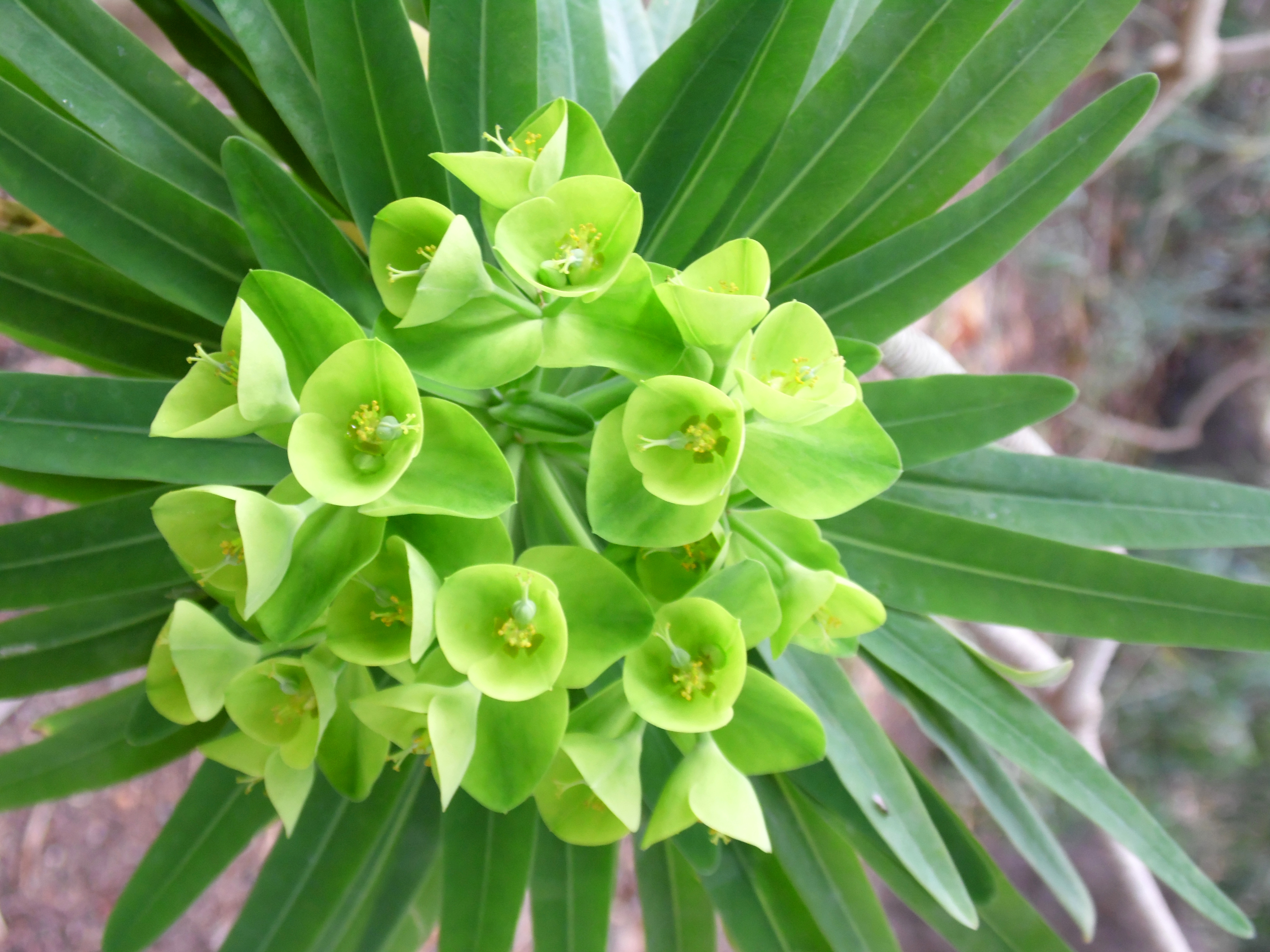 Euphorbia bourgeana (described as Euphorbia lambii) in Jardín Botánico Canario Viera y Clavijo